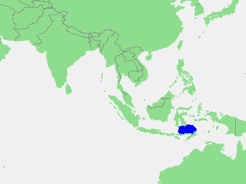 Flores Sea